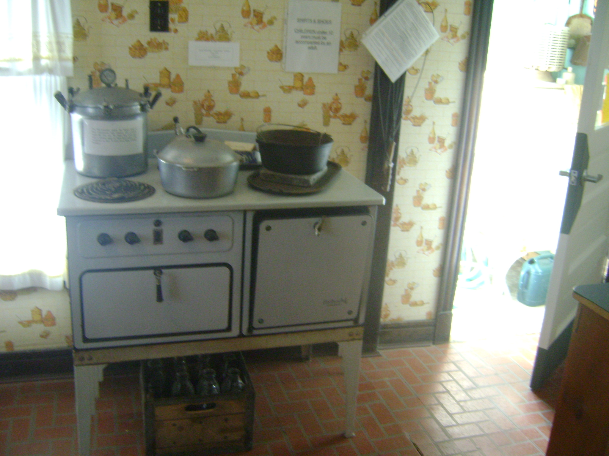 Celia Lathers' stove. Celia is the wife of Swift Lathers.